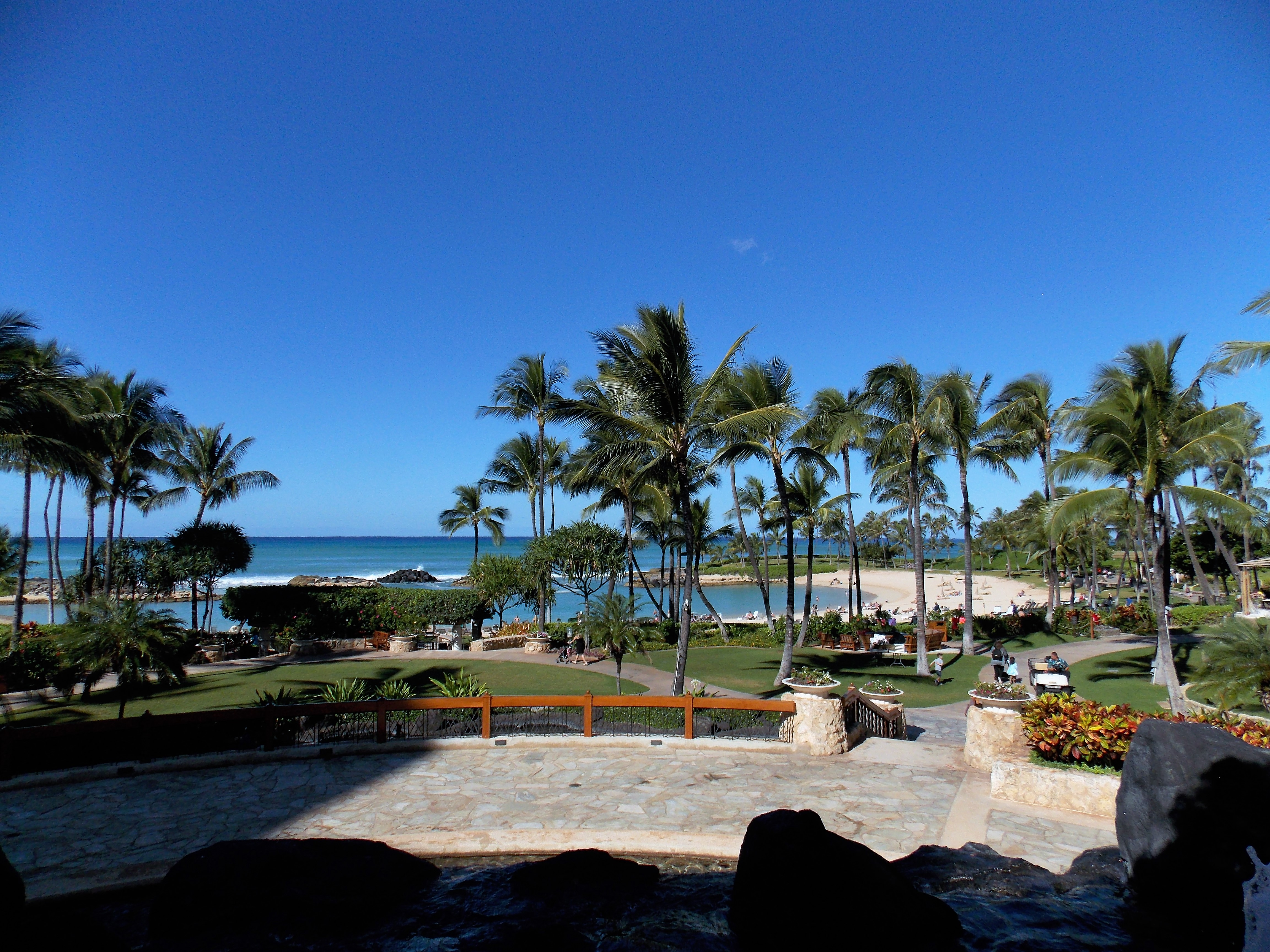 Marriott’s Ko Olina Beach Club in the Ko Olina Resort area in Kapolei, Hawaii.